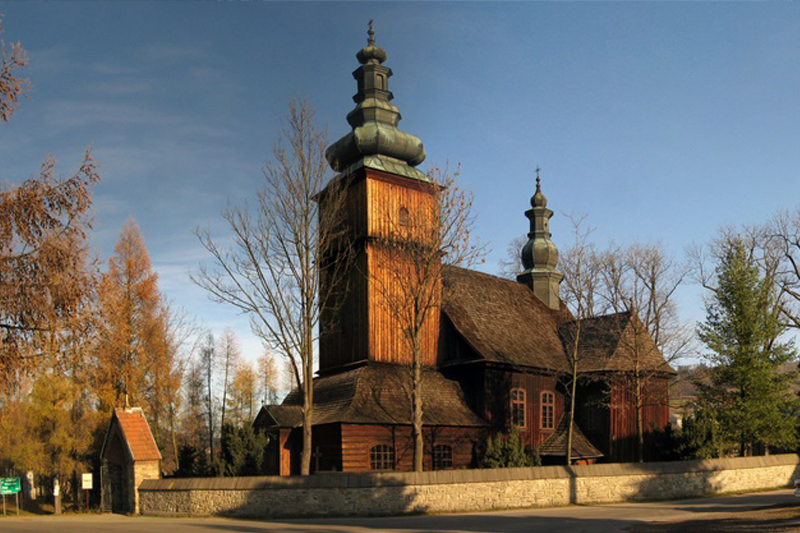 Kościół w Łętowni (Małopolska)